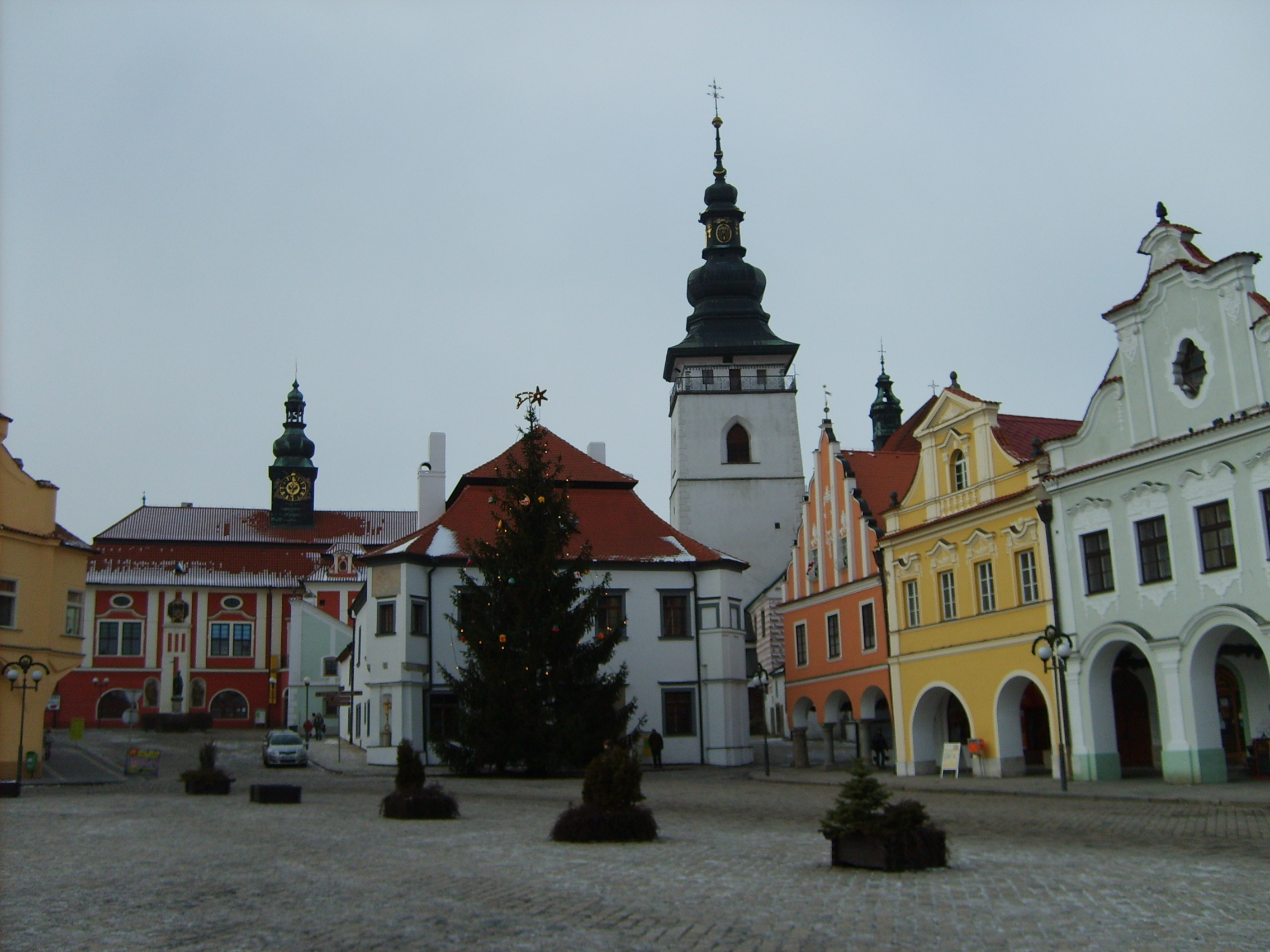 Square in Pelhřimov